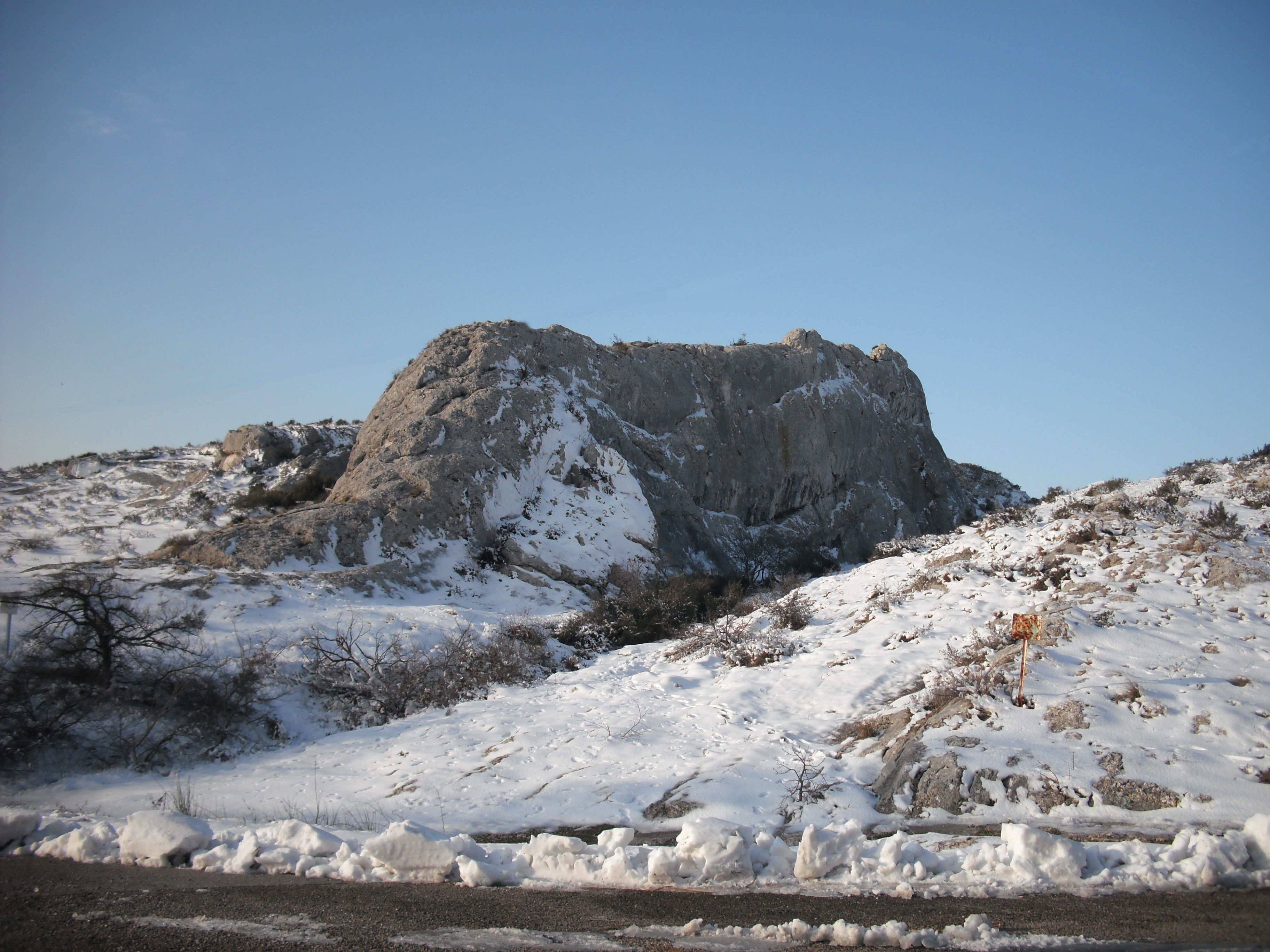 Snow at La Pène range (Paradou, France)